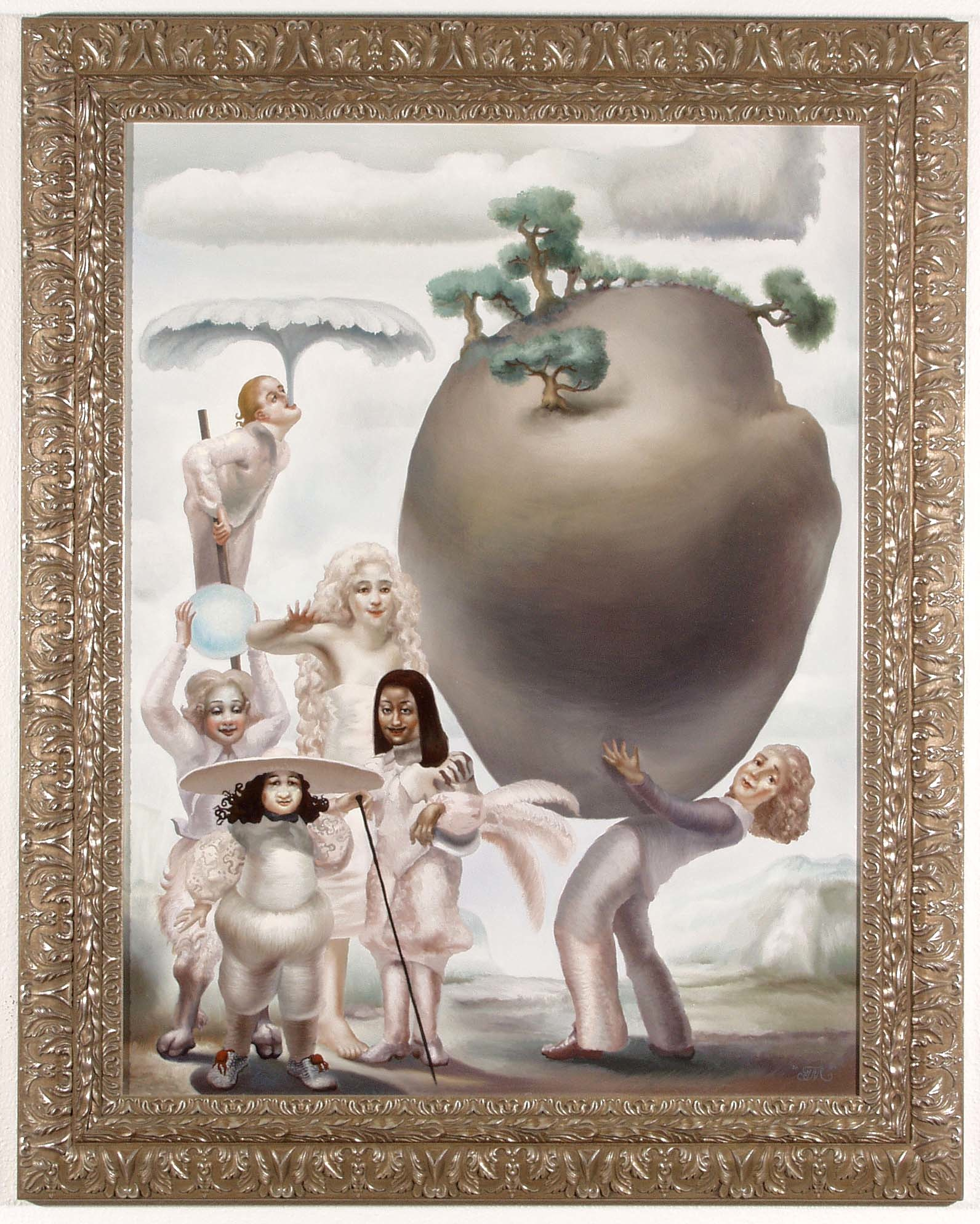 Oil painting by Norwegian artist resulting from a technic adopting a series of successive layers of warm, medium and cold colours. Slightly dynamic composition from left to right. The right-hand side figure carries his big heart as much as the left-hand side one at the back represents a fountain of generosity, a willingness to give and share.